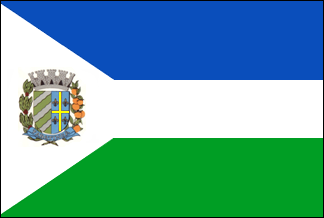 Flag of Tabatina - SP - Brazil.